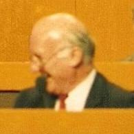 Russell Johnston at the Liberal Party Asssembly in Harrogate, 1987